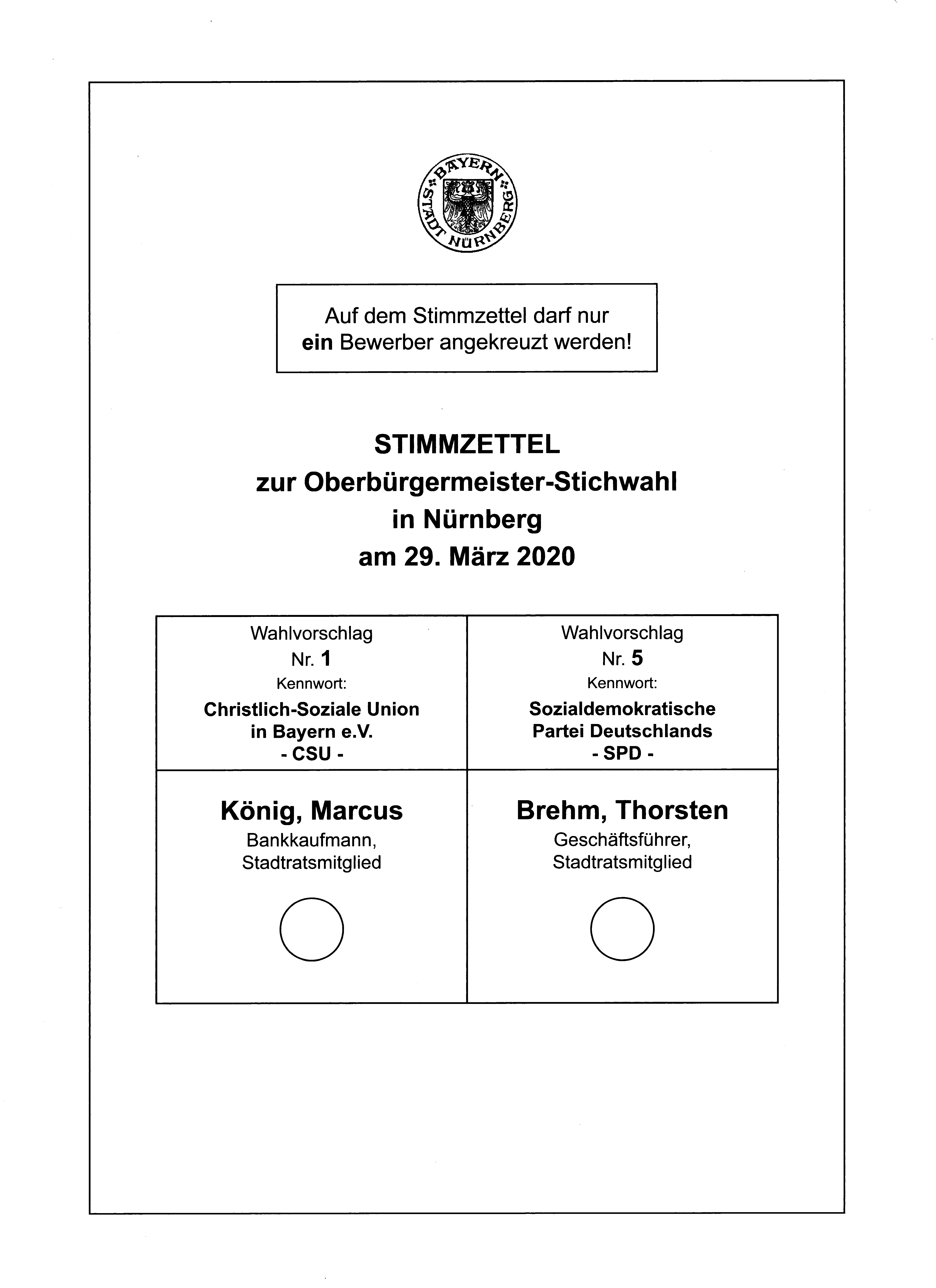 Sample ballot cards Lord Mayor election Nuremberg 2020